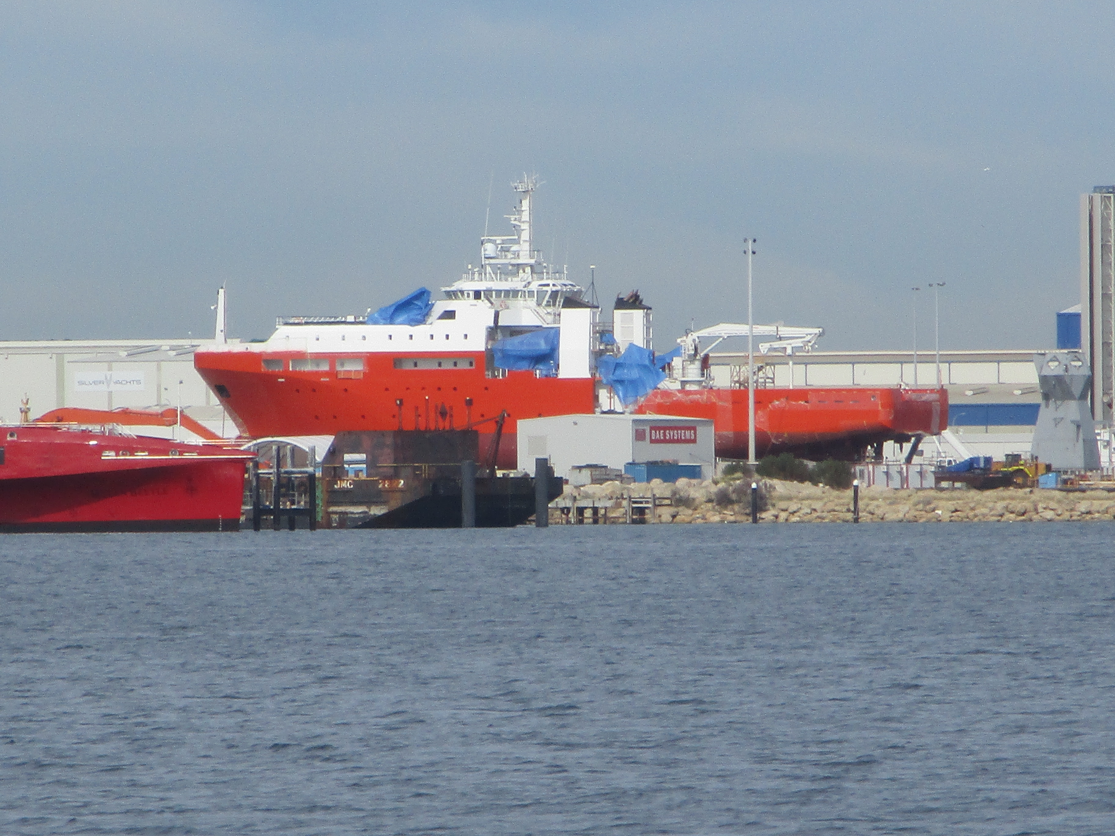 The MV Besant, a Submarine Intervention Gear Ship of the Royal Australian Navy, at Henderson, Western Australia. The ship on the left of the image is the Trimaran ferry Queen Beetle while the tower on the right belongs to an ANZAC class frigate.